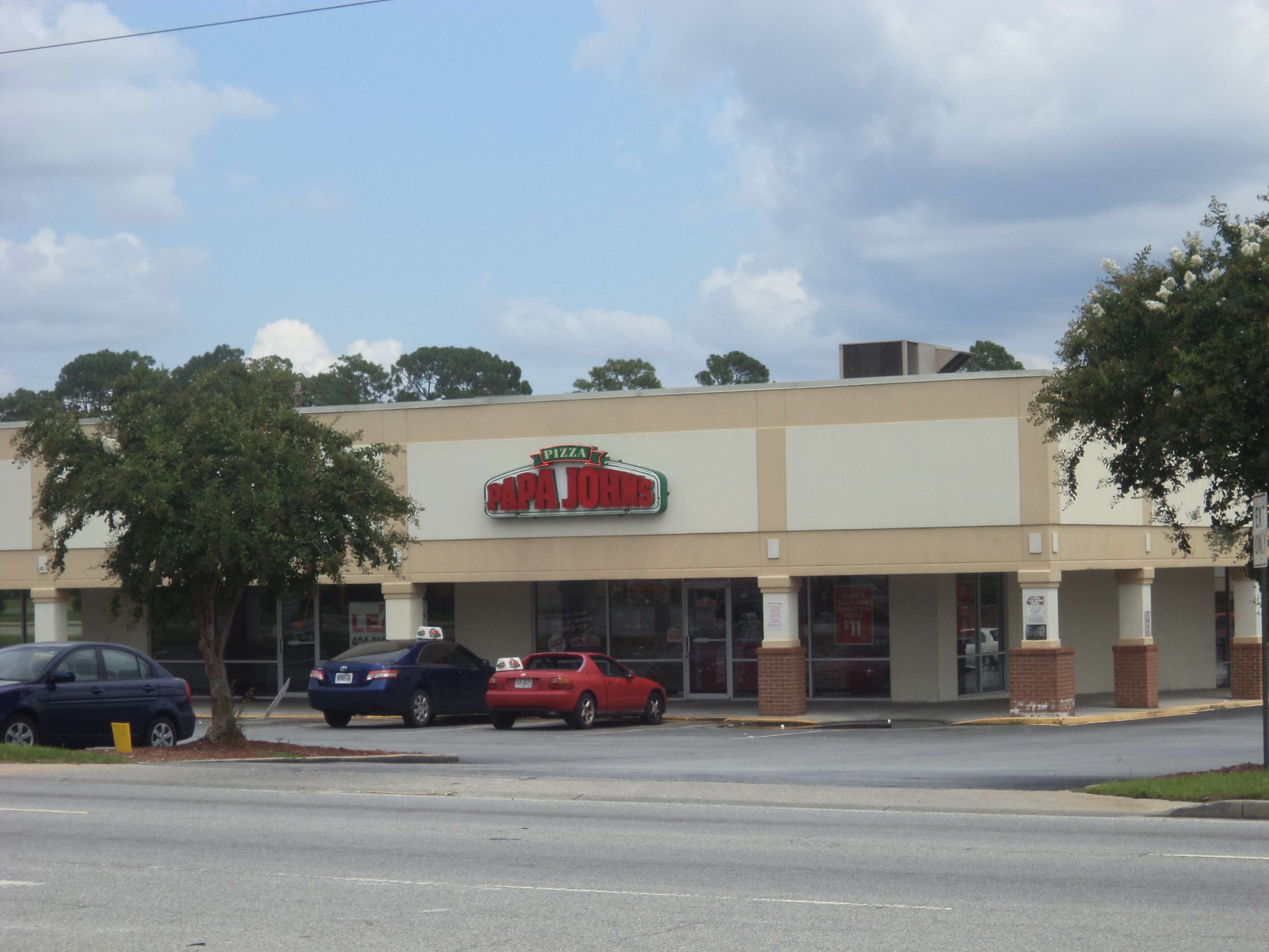 Papa Johns, 2139 Bemiss Rd, Valdosta, Lowndes County, Georgia. This restaurant closed 2/2019.